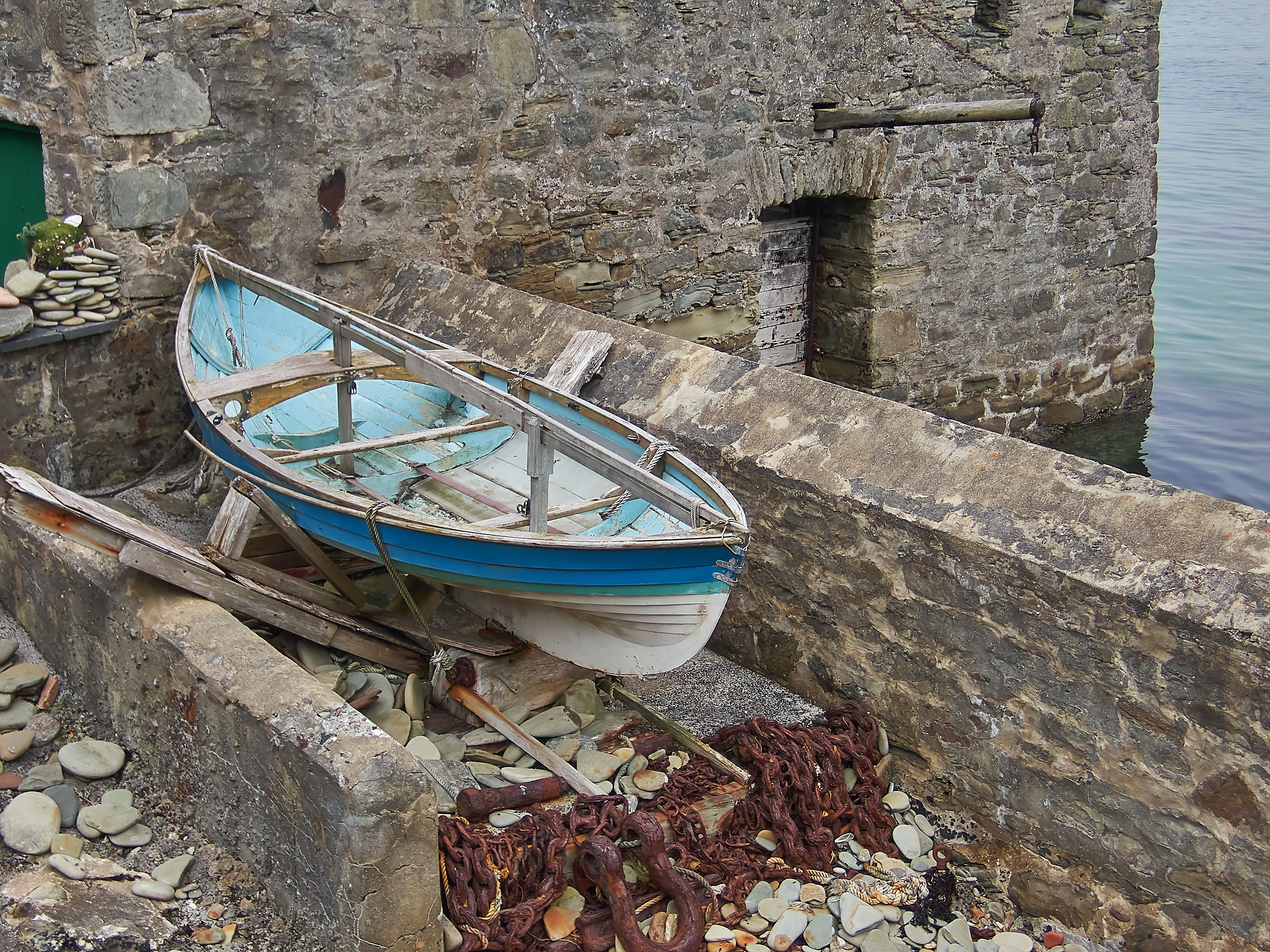 Rowing boat stored behind the sea wall in Lerwick, Shetland Islands. These boats - called a ness yoal - works well as a rowing boat as well as for sailing.